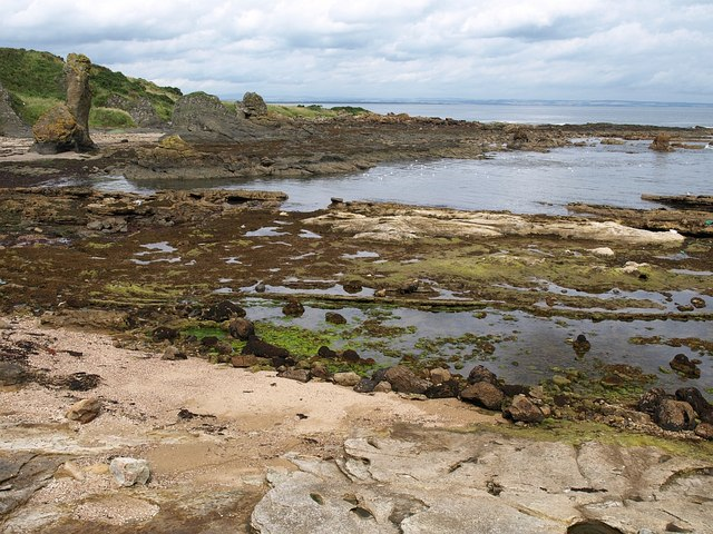 Kinkell Harbour. On the left is 322949. The cove forms a natural harbour. "Adair, in 1703, described this harbour as 'a little Creek with a Head of Stone',1 i.e., presumably, a stone-built pier or jetty. The 25-in. O.S. map of 1894 marks 'Kinkell Harbour' immediately SE. of the Ness though without showing any works. Today no structure can be found, but the creek is approached by a track deeply rutted in the littoral rocks."